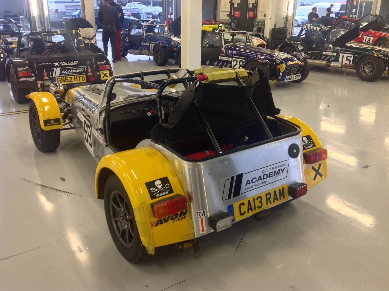 A Caterham Seven Academy car 2013